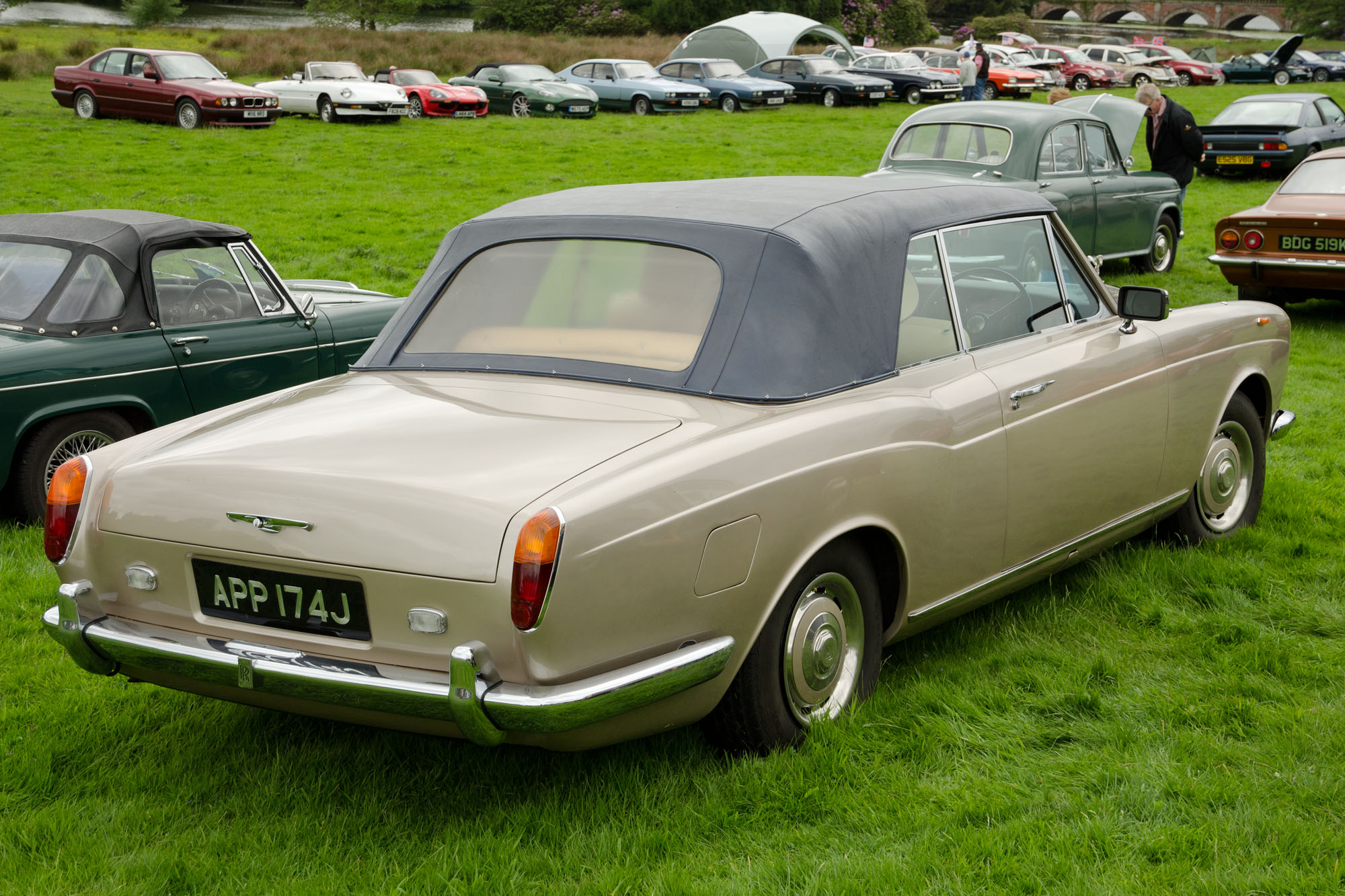 Capesthorne Hall Classic Car Show 25/05/2014